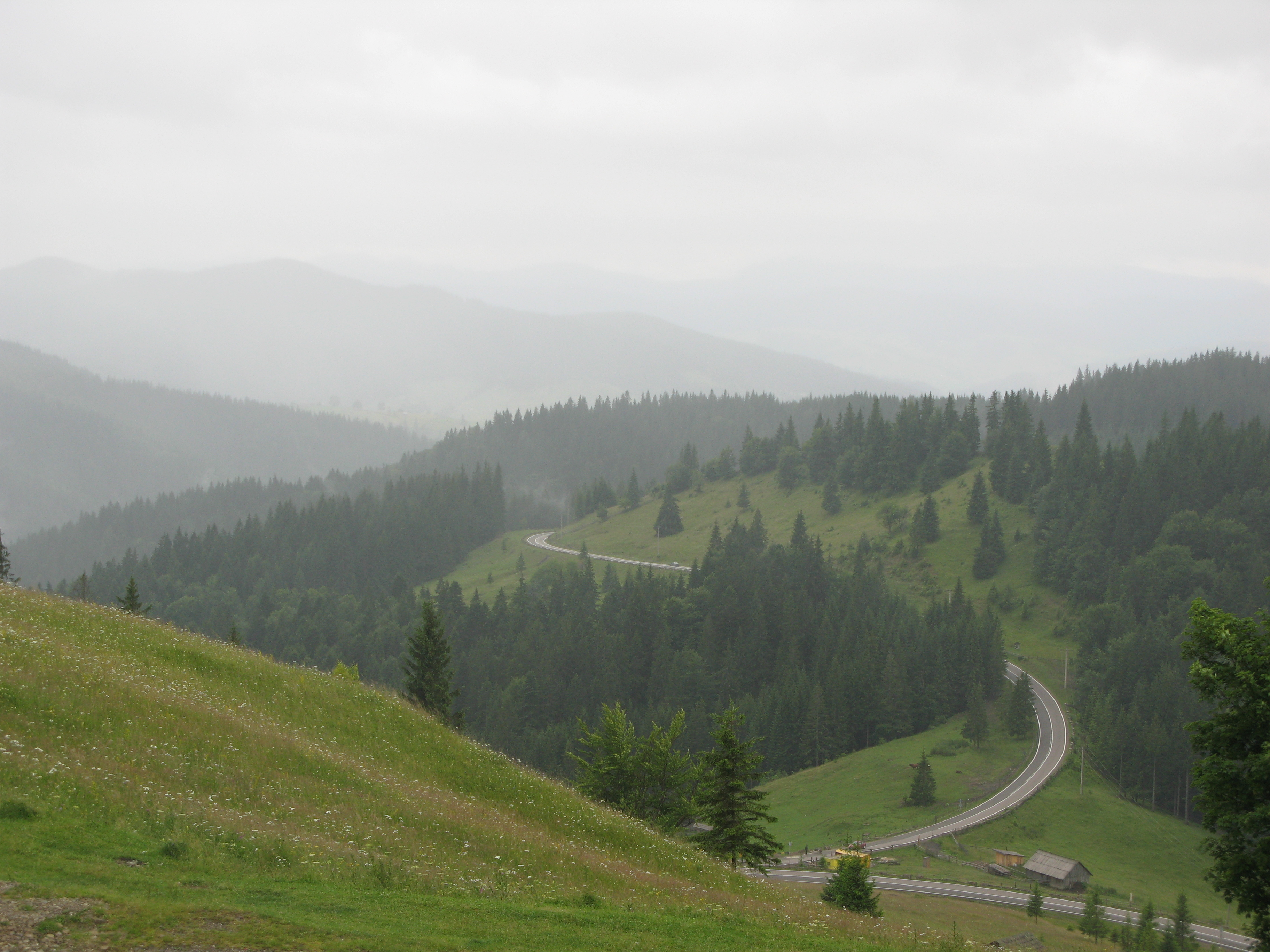 Carpathian mountains in Bukovina.